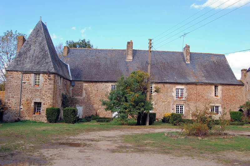 Picture of the templar preceptory of Le Gue-Lian